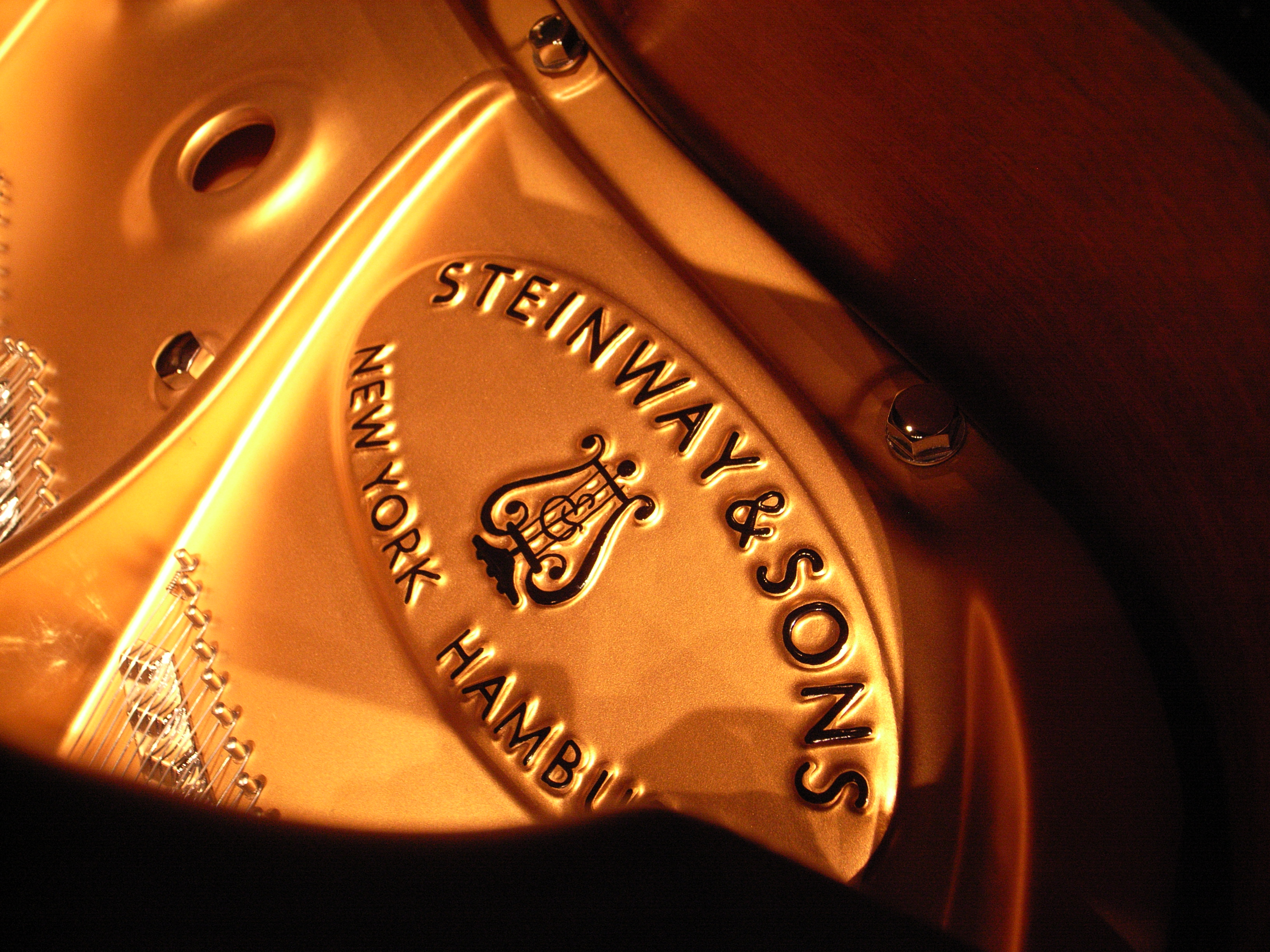 Steinway & Sons bronzed cast iron plate with handpainted logo.